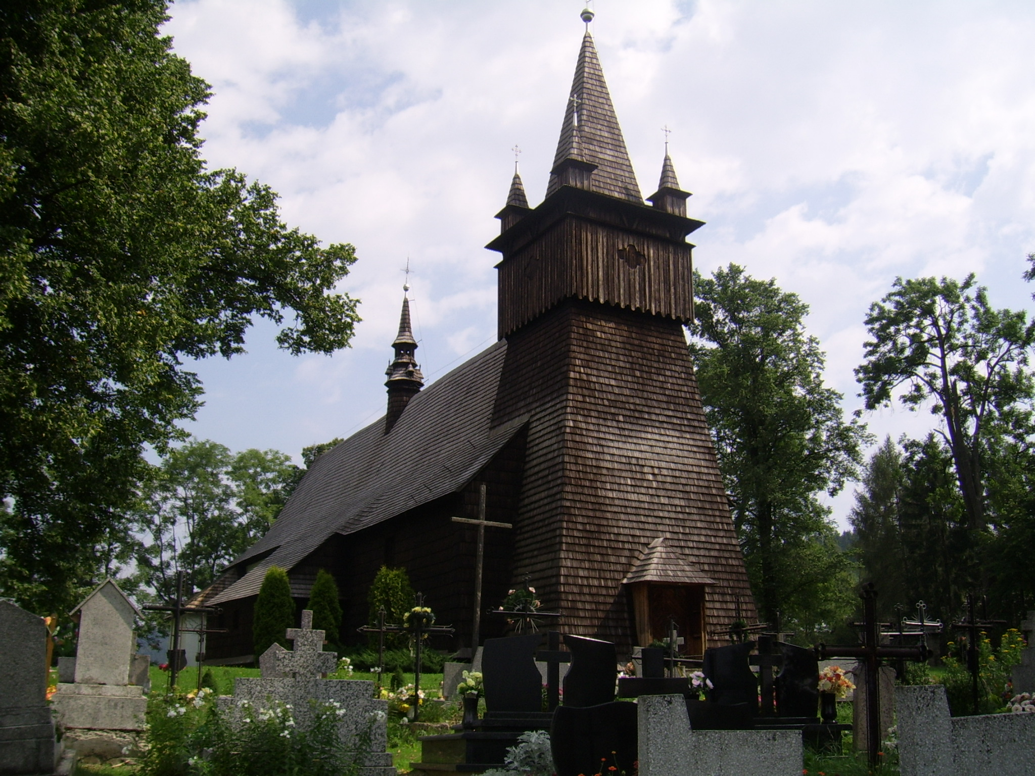 John the Baptist church in Orawka, Poland